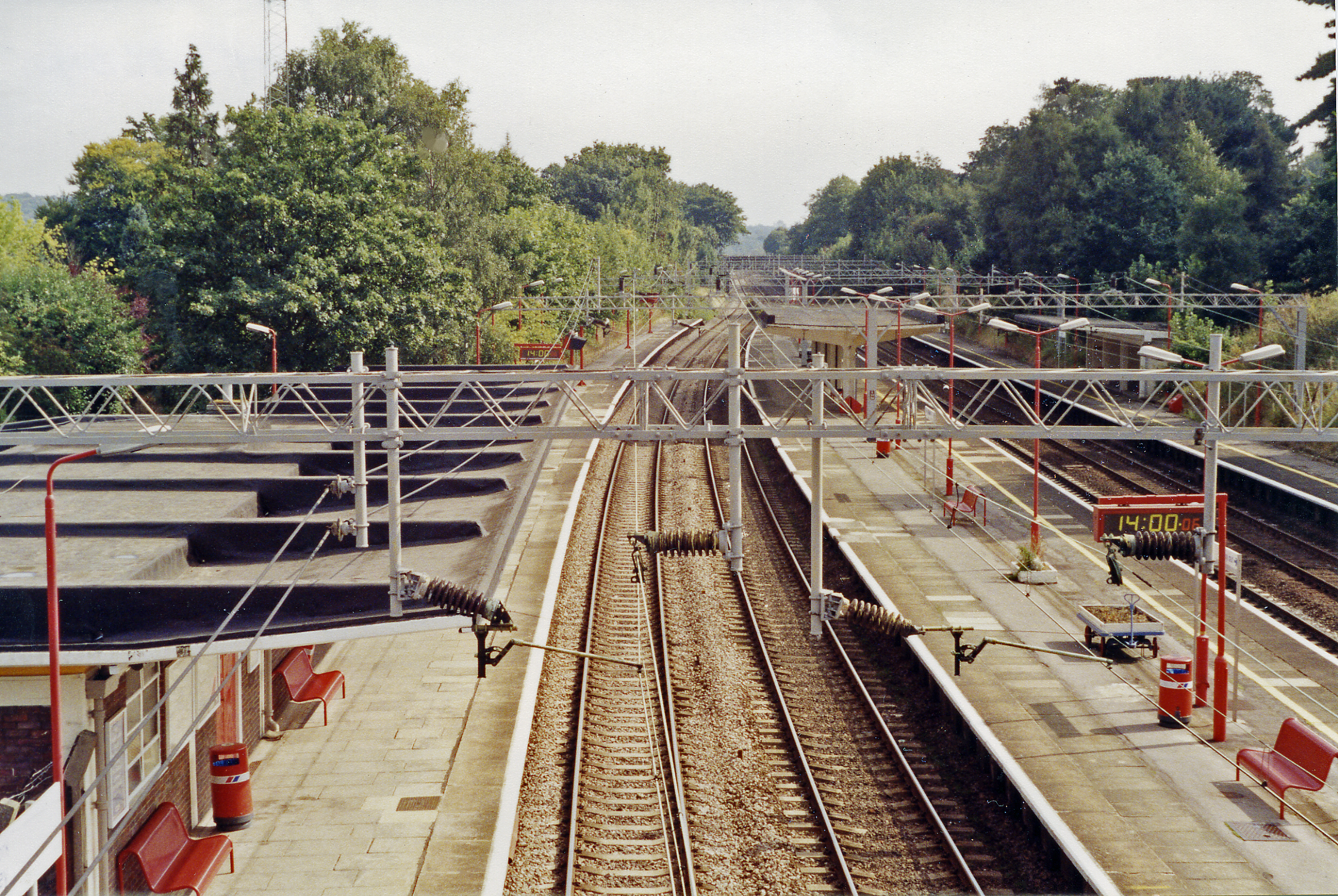 Apsley station, 1991. View SE, towards Watford Junction and London: ex-LNWR West Coast Main Line. This station is a 'modern' one, opened in 9/38 to serve 1930s development, between Kings Langley and Hemel Hempsted. The WCML 25 kV overhead electrification reached Euston on 1/3/66, the Fast lines being on the right